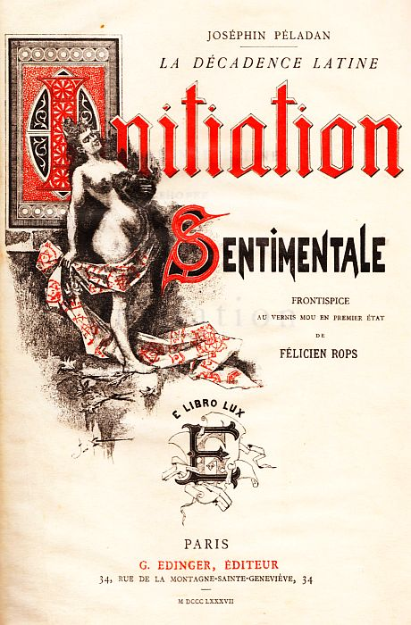 Front cover of Joséphin Péladan's novel Initiation Sentimentale (1887, deluxe edition).